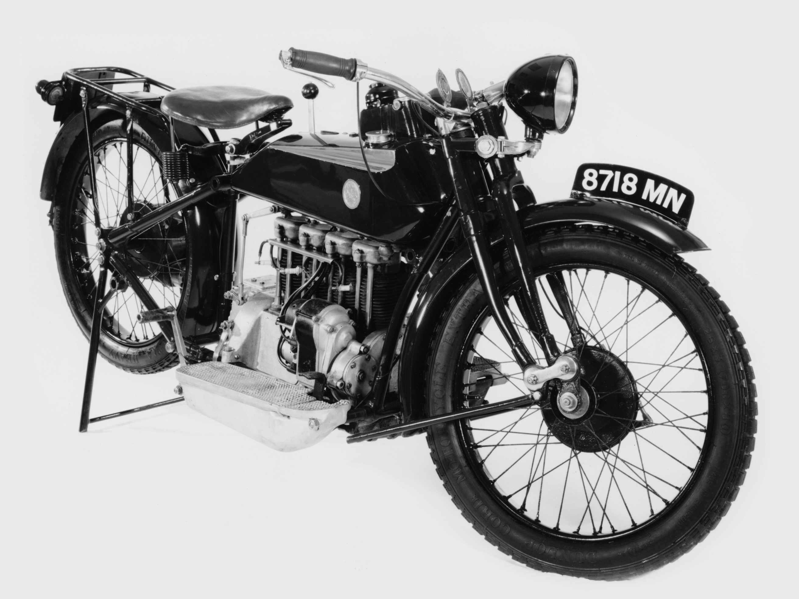 Vauxhall Luxury Motorcycle